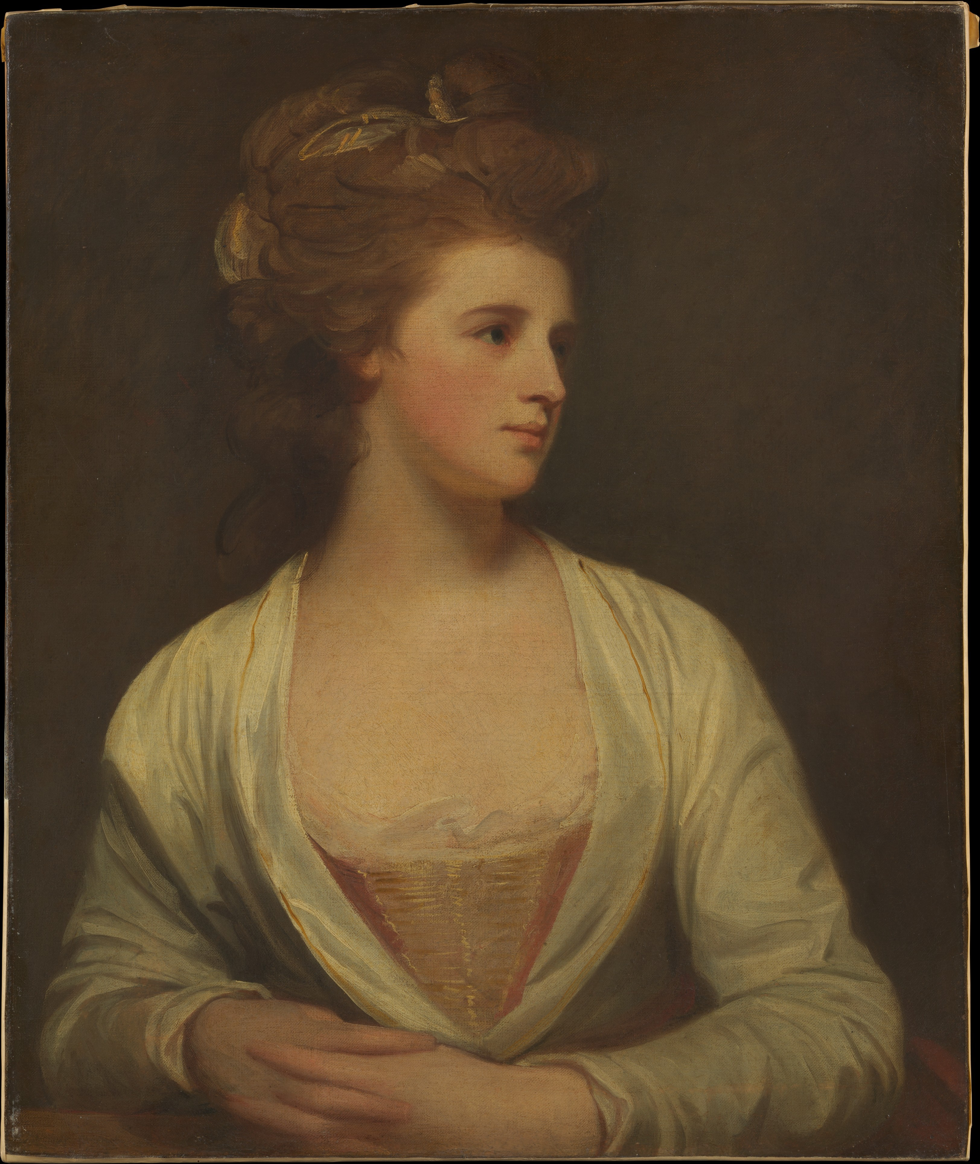 Portrait of a Woman, Said to Be Emily Bertie Pott